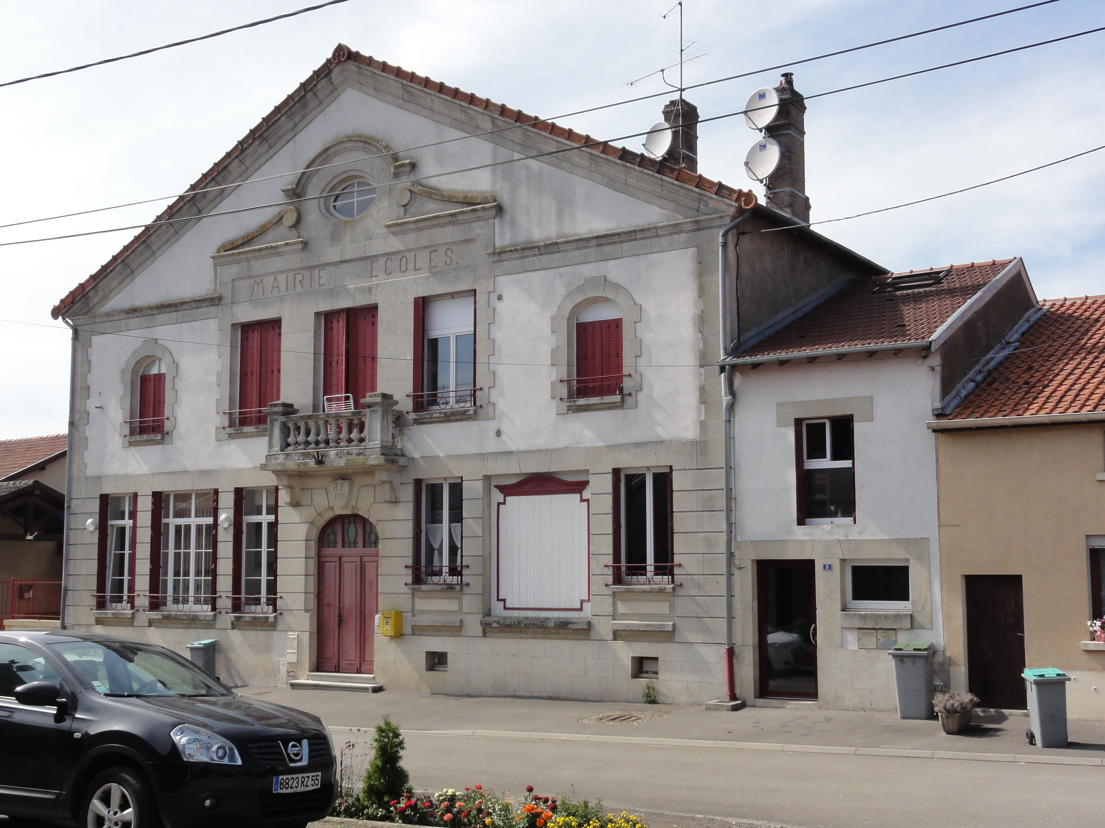 Rouvrois-sur-Othain (Meuse) mairie